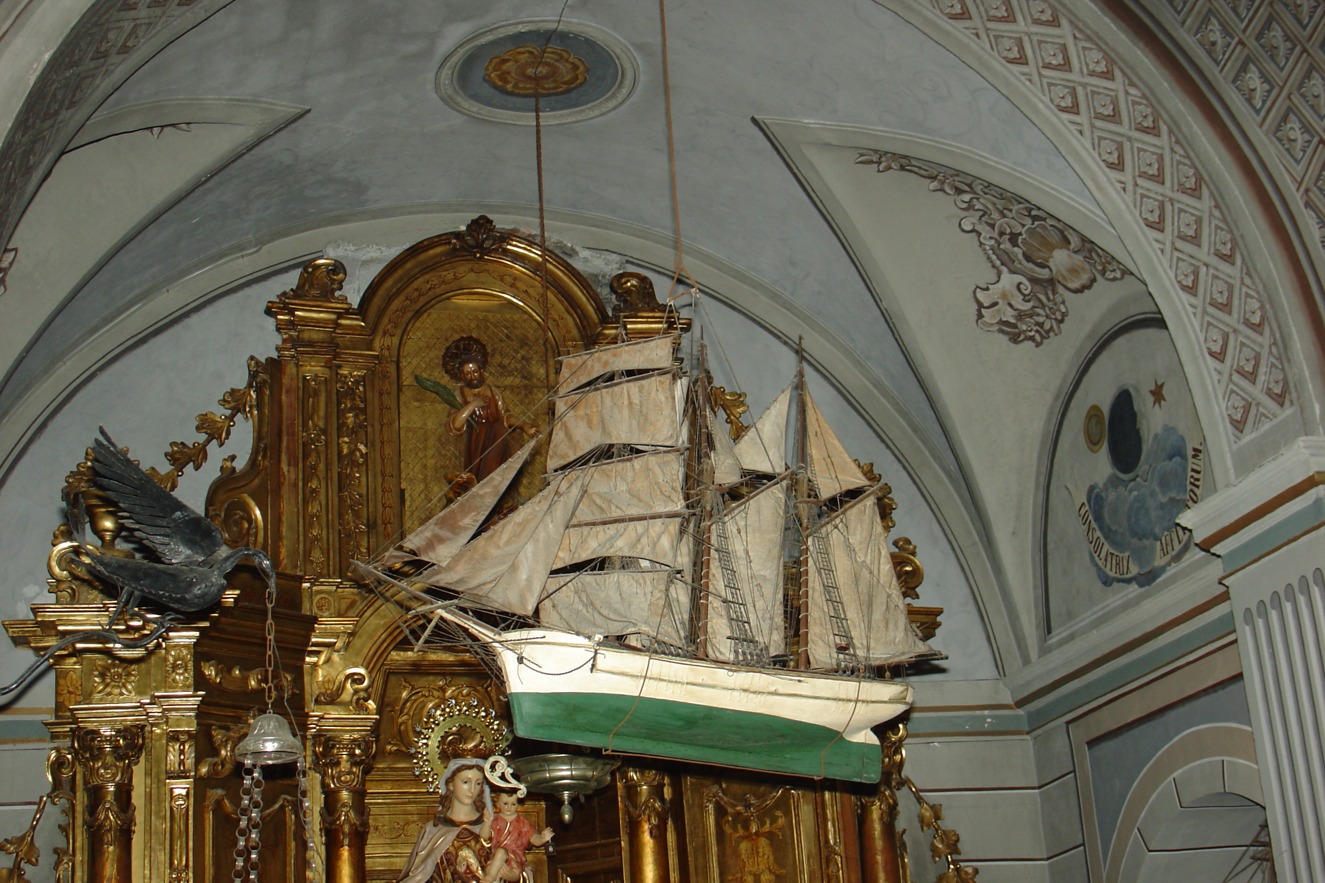 model of ship ex voto Sitges church of Mare de Deu del Vinyet